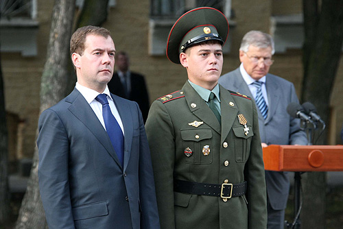 VLADIKAVKAZ. Presentation of state decorations to Russian servicemen for distinction in battle in the Georgian-South Ossetian conflict zone.